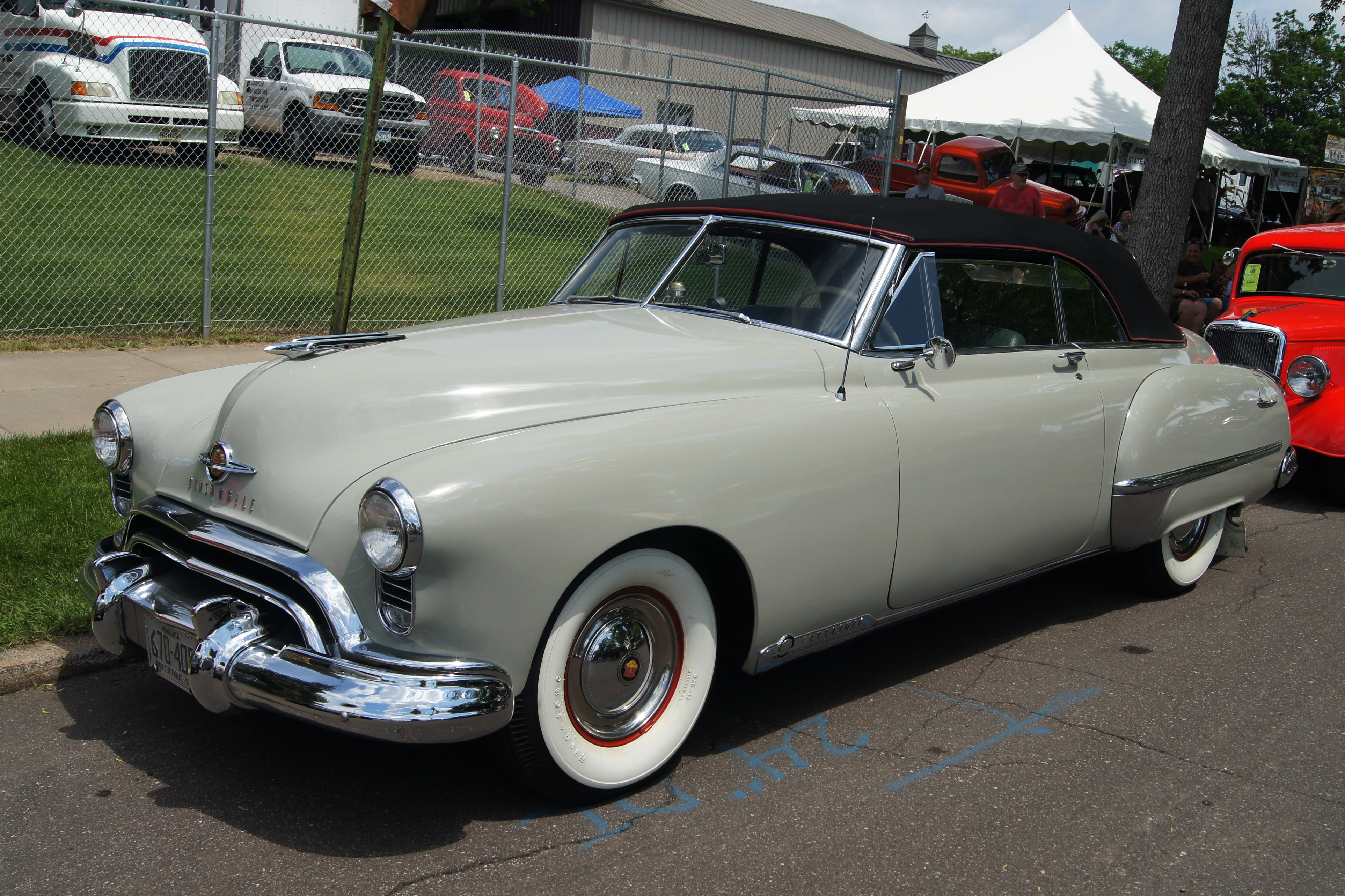 MSRA “BACK TO THE 50′s” 42nd Annual June 19-21, 2015 State Fairgrounds St. Paul Minnesota Click here for more car pictures at my Flickr site.